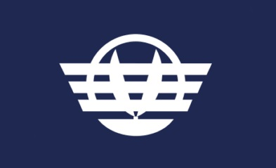 Flag of Katsuura Tokushima